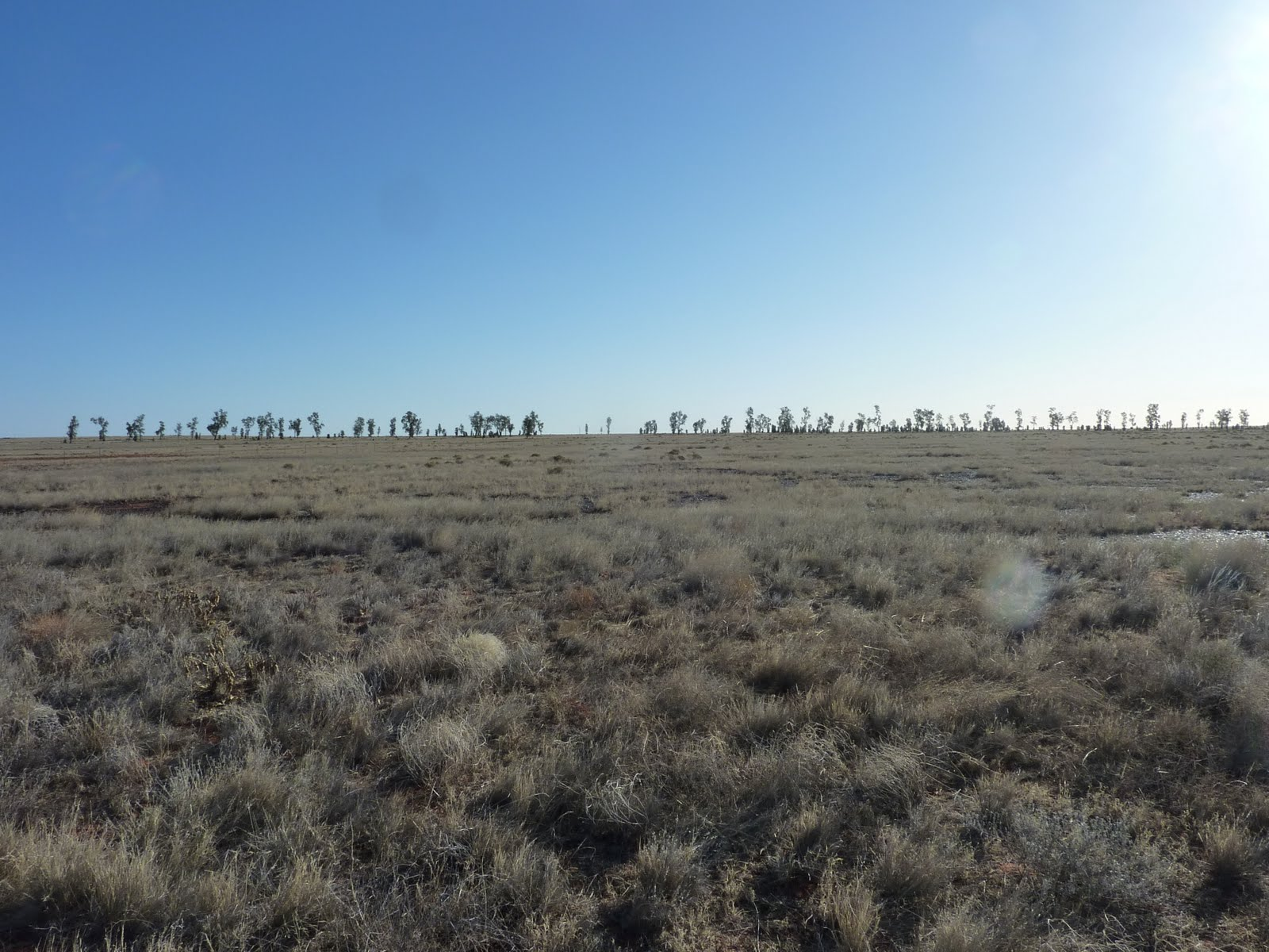 Waddywood (Acacia peuce) in the distance near Andado, Northern Territory, Australia